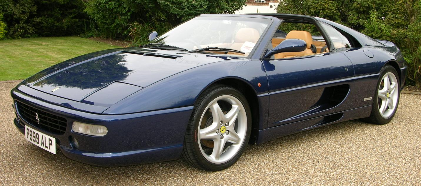 This car is for sale. Please contact us at or visit for more information.